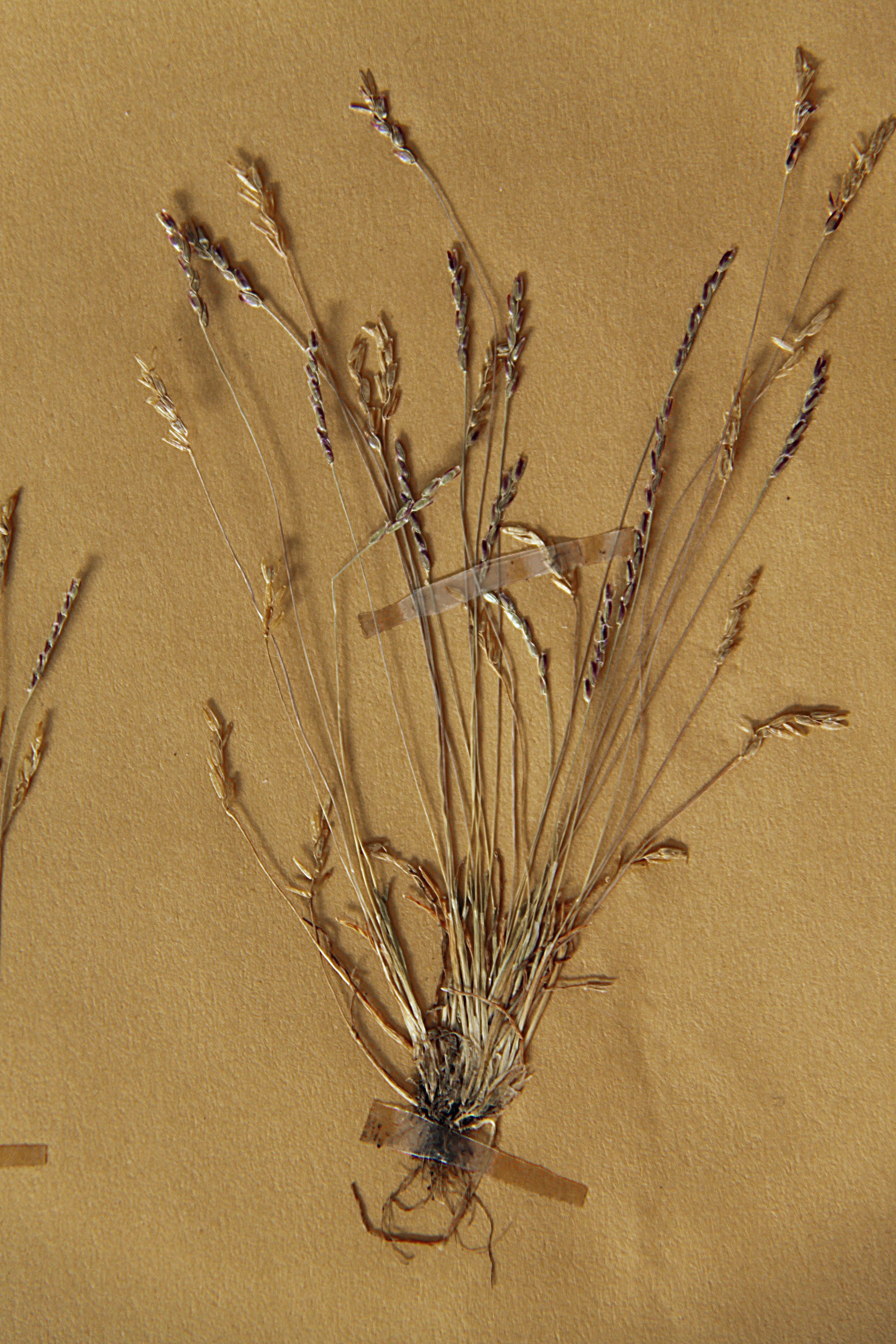 Dried specimen of Mibora minima, 9 cm high, collected near Estepona, Spain in 1987